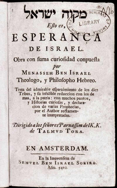 Front page of the book Mikveh Israel written by Mennasseh Ben Israel. Published in 1650.